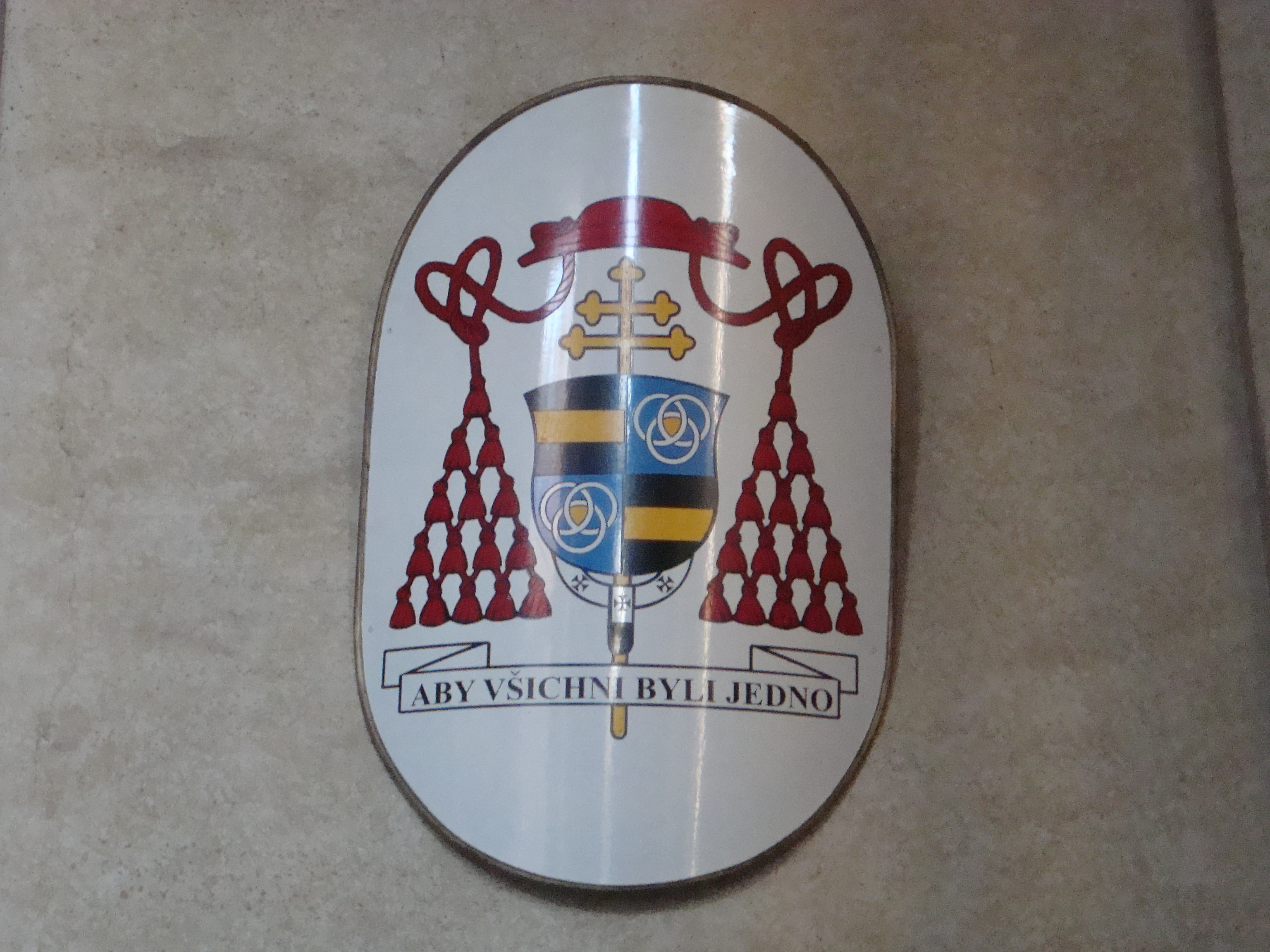 Cardinalice title of Miloslav Vlk